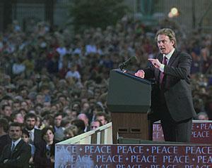 British Prime Minister Tony Blair Speaks In Armagh, Northern Ireland.